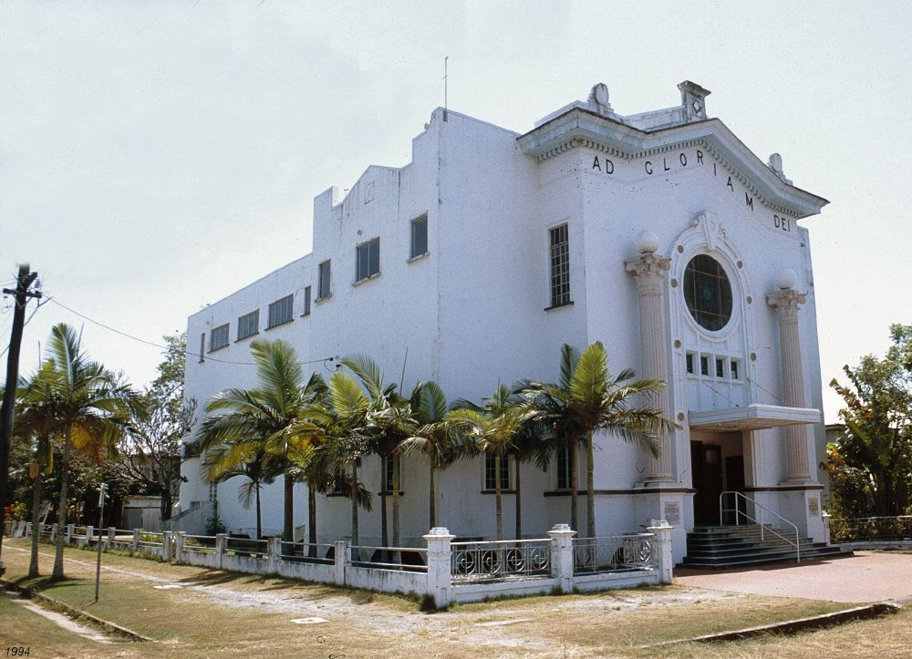 Cairns Masonic Temple, 1994